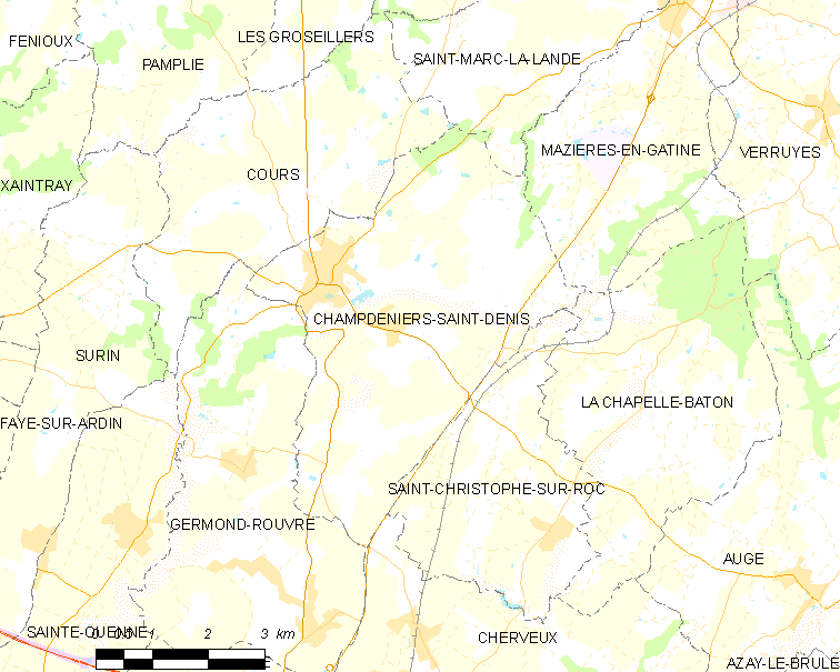 Map of French municipality Champdeniers-Saint-Denis